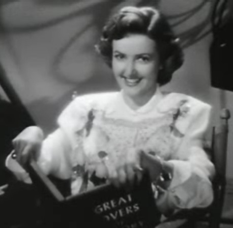 Cropped screenshot of Martha Vickers from the trailer for the film Love and Learn. This scene was not taken from the film but was filmed specifically for the trailer, in which Vickers, as herself, talks to the audience about the film.